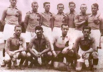 A Yugoslavia national team line-up of 1929.